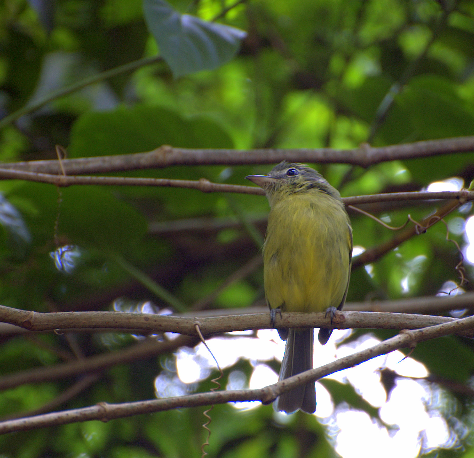 Yellow-olive Flycatcher (Tolmomyias sulphurescens) Horto Florestal de São Paulo